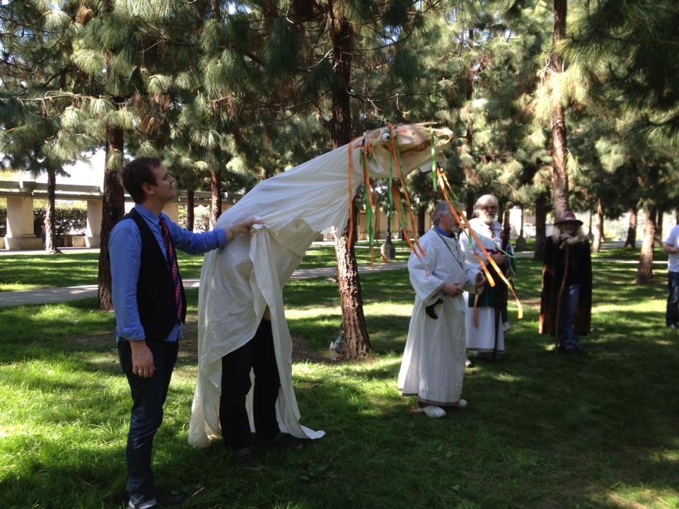 Druid Ceremony at the 2013 Los Angeles St. David's Day Festival, with coordinators Lorin Morgan-Richards holding the Mari Lwyd, while Peter Anthony Freeman speaks.